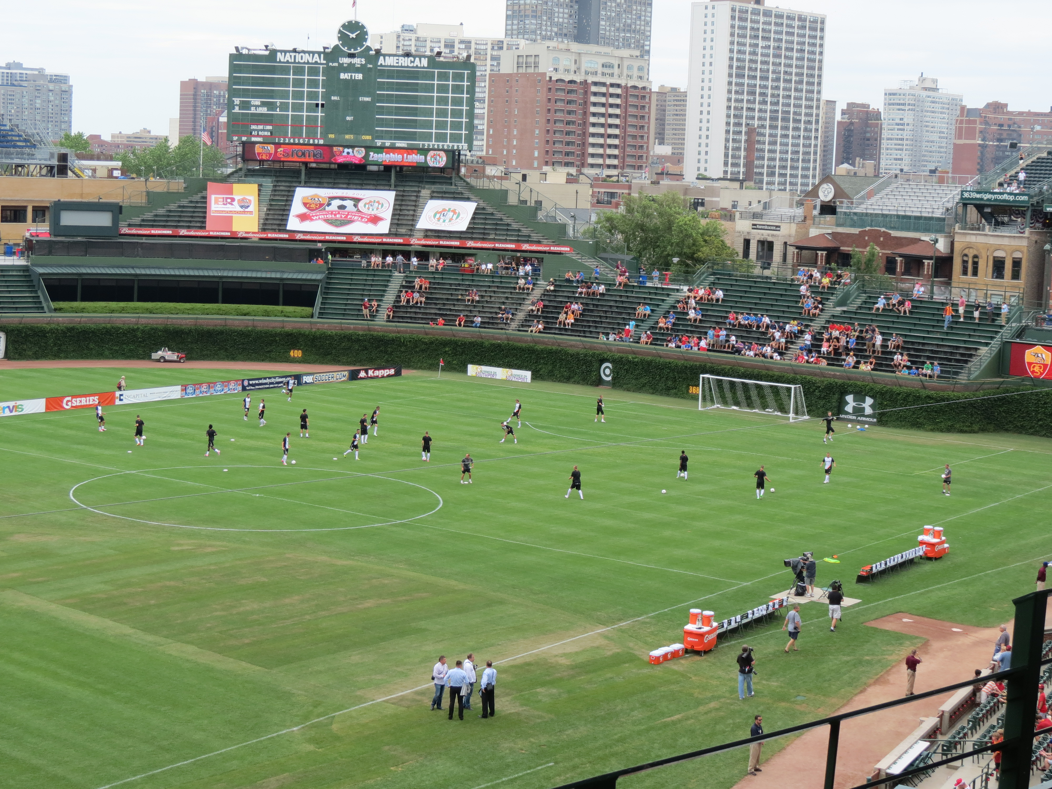 Zagłębie Lubin players practice ahead of their friendly match vs A.S. Roma at Wrigley Field in Chicago.